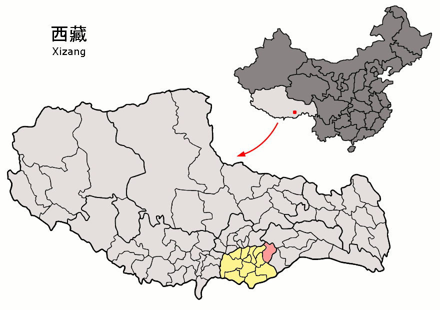 Location of Gyaca County (pink) and Shannan Prefecture (yellow) within Tibet (Xizang) autonomous region of China